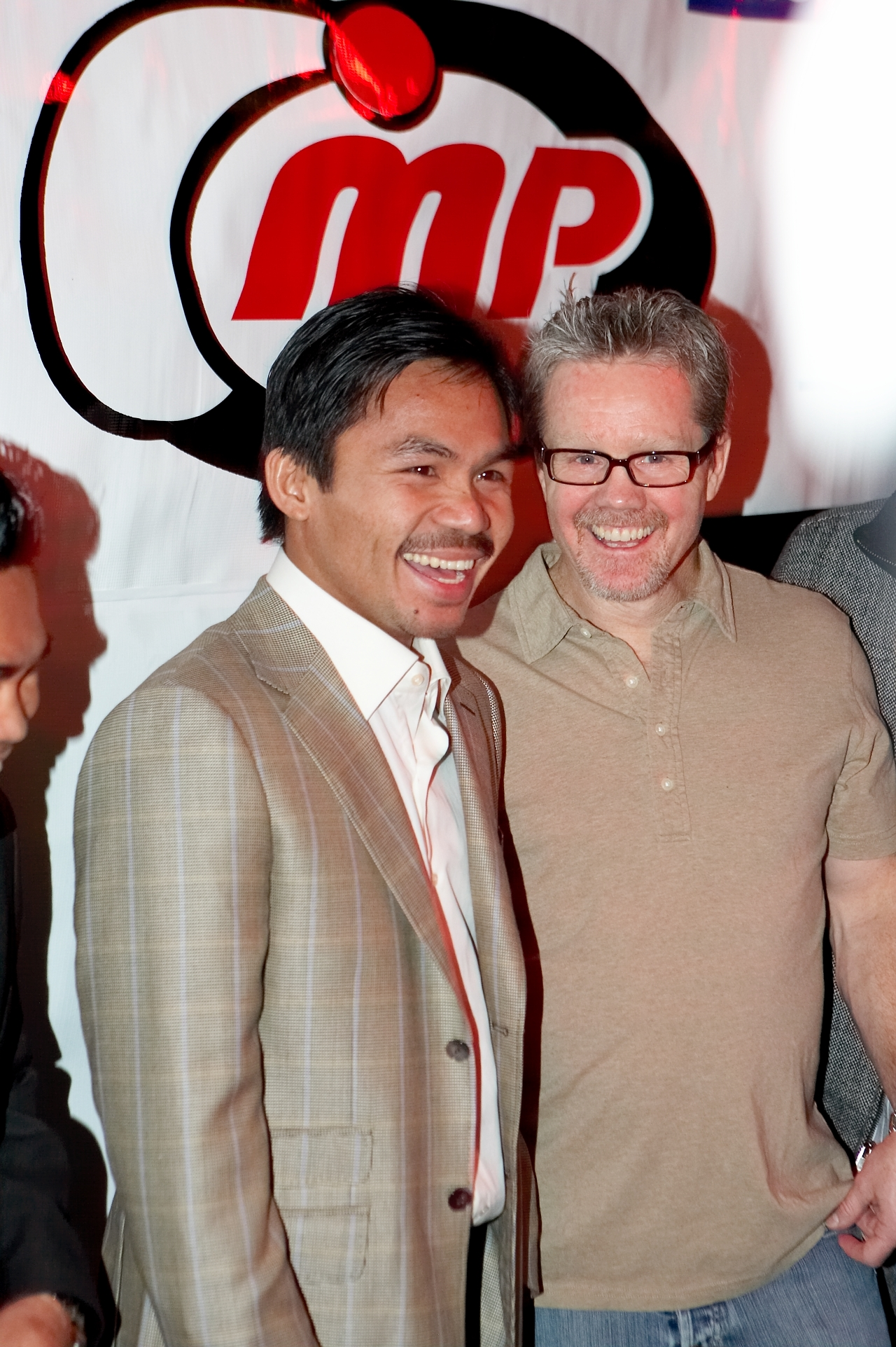 Freddie Roach and Manny Pacquiao at the Pacquiao birthday Christmas party at J Lounge. Los Angeles, CA.